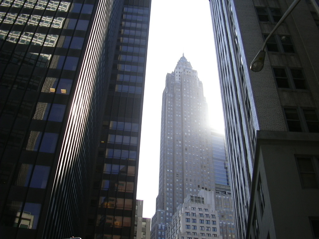 The American International Building